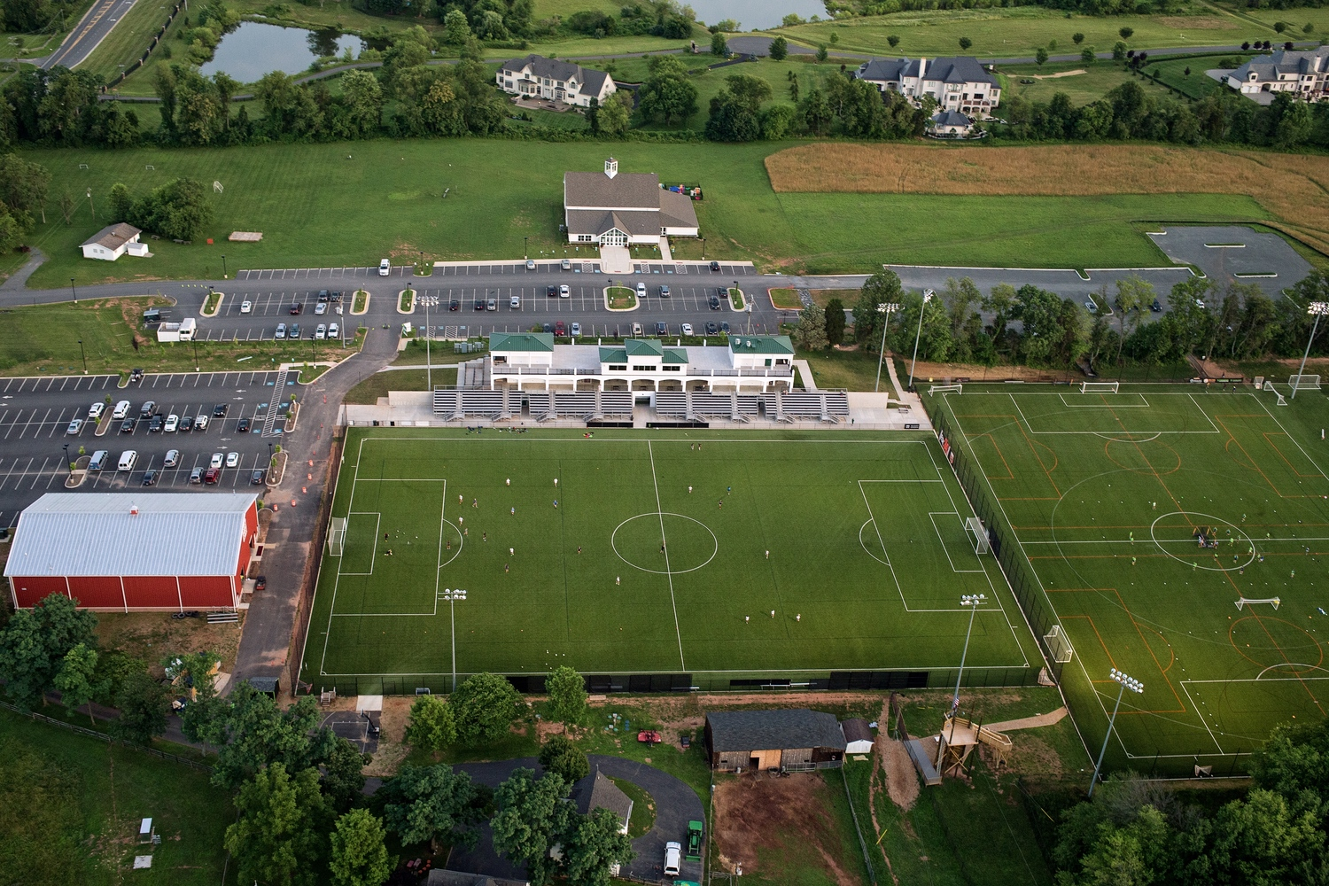 An overhead look at Evergreen Sportsplex and the faciltiy's stadium, Cropp Metcalfe Park